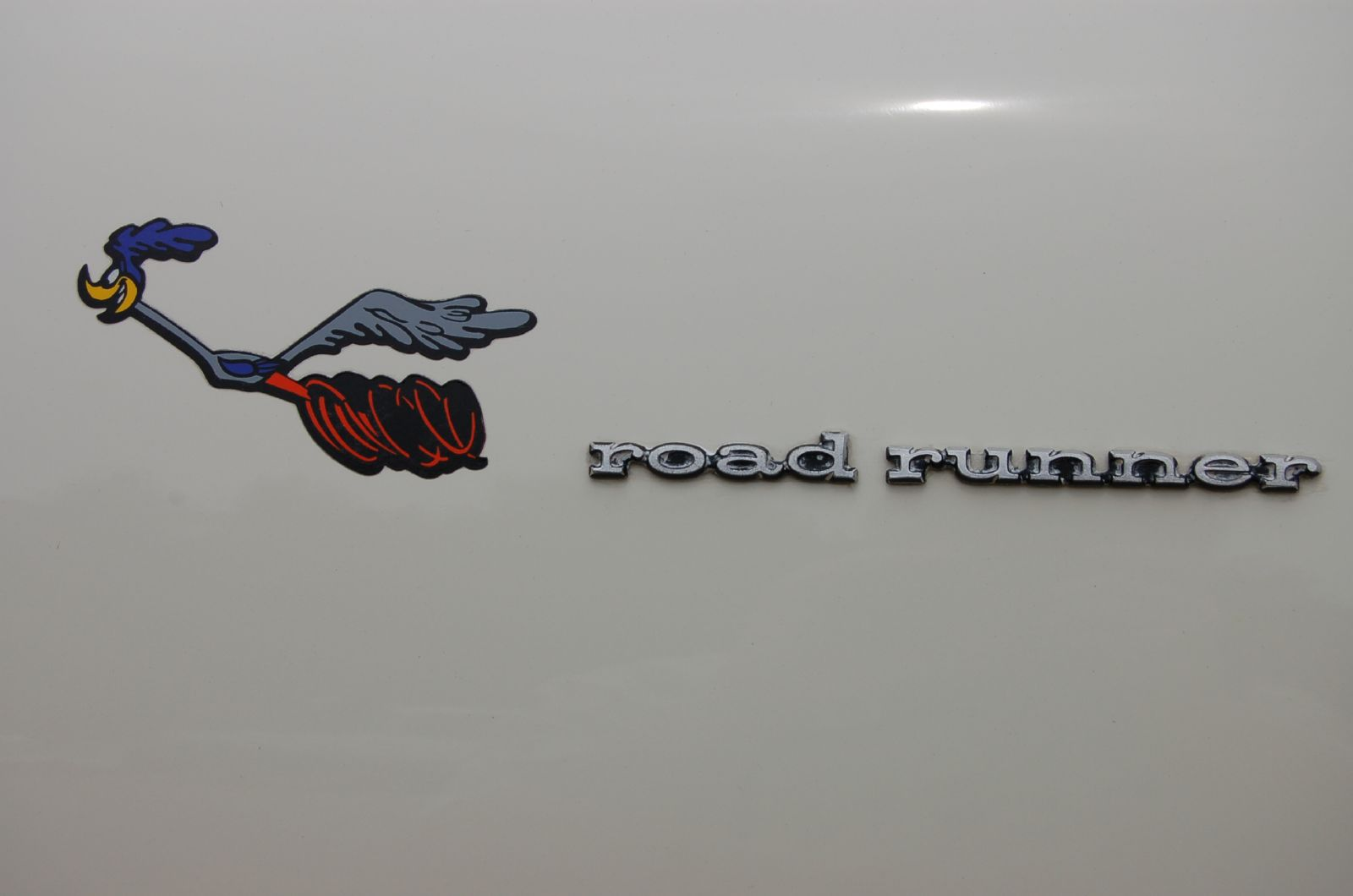 Taken during the 2007 "Red Barns Spectacular" car show at the Gilmore Car Museum, Hickory Corners, Michigan.